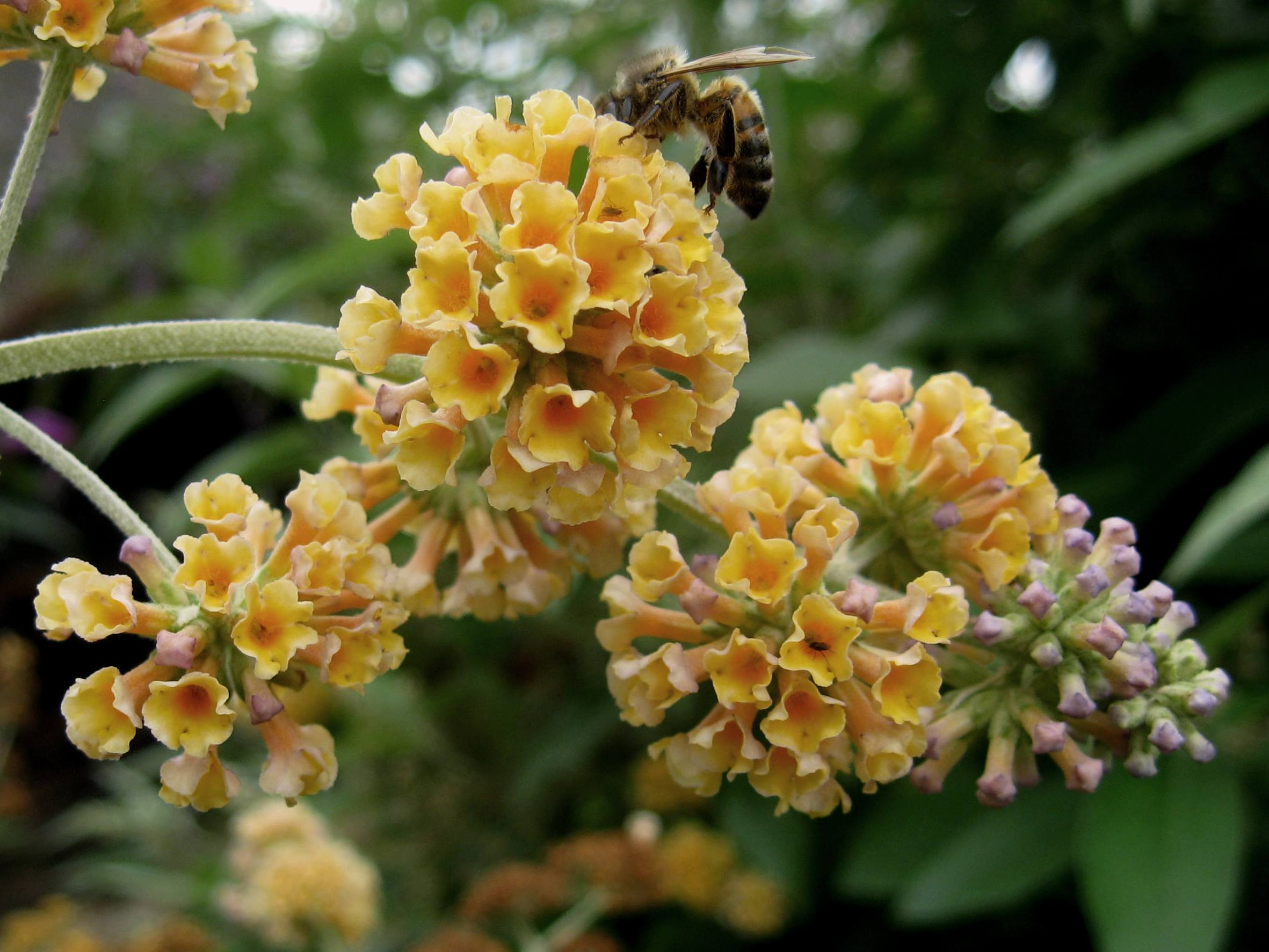 Photo taken at Longstock Park, UK, August 2012.